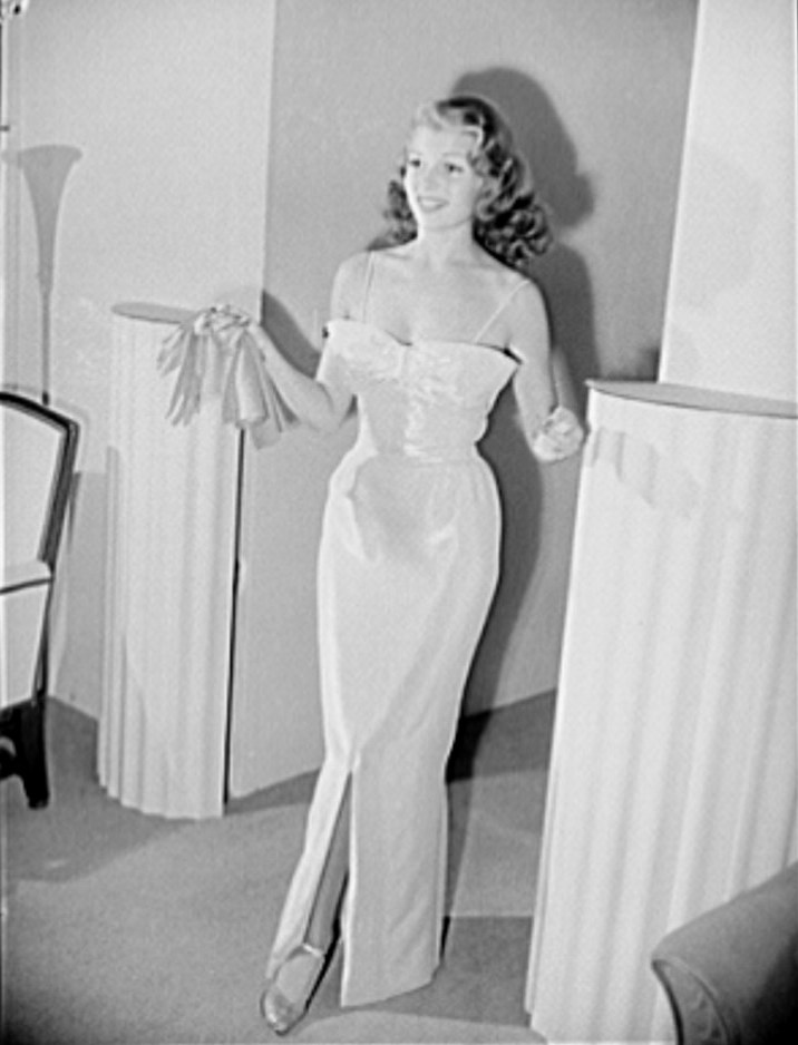 Rita Hayworth in a pink and silver lame evening dress designed by the famed Hollywood designer Howard Greer. Her evening hose are of fine crepe lisle of the same spun sugar sheen as the dress.